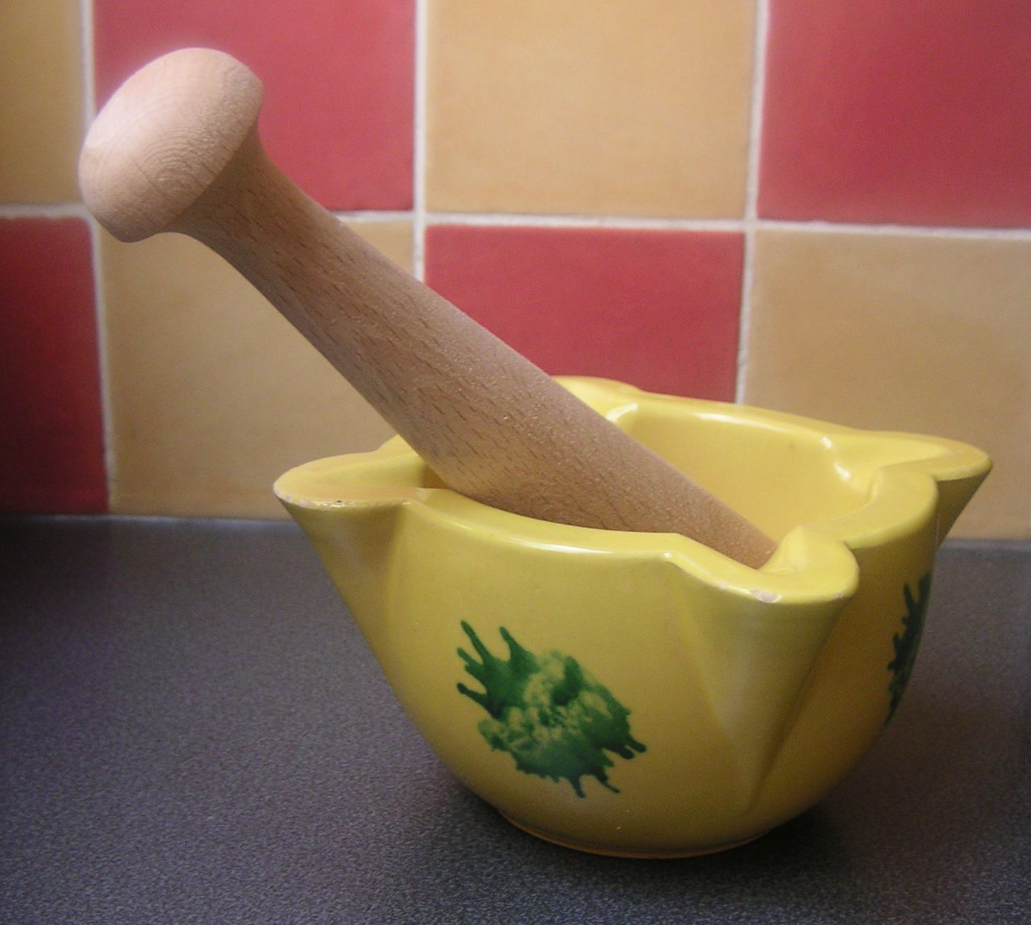 Catalan clay mortar used in cooking